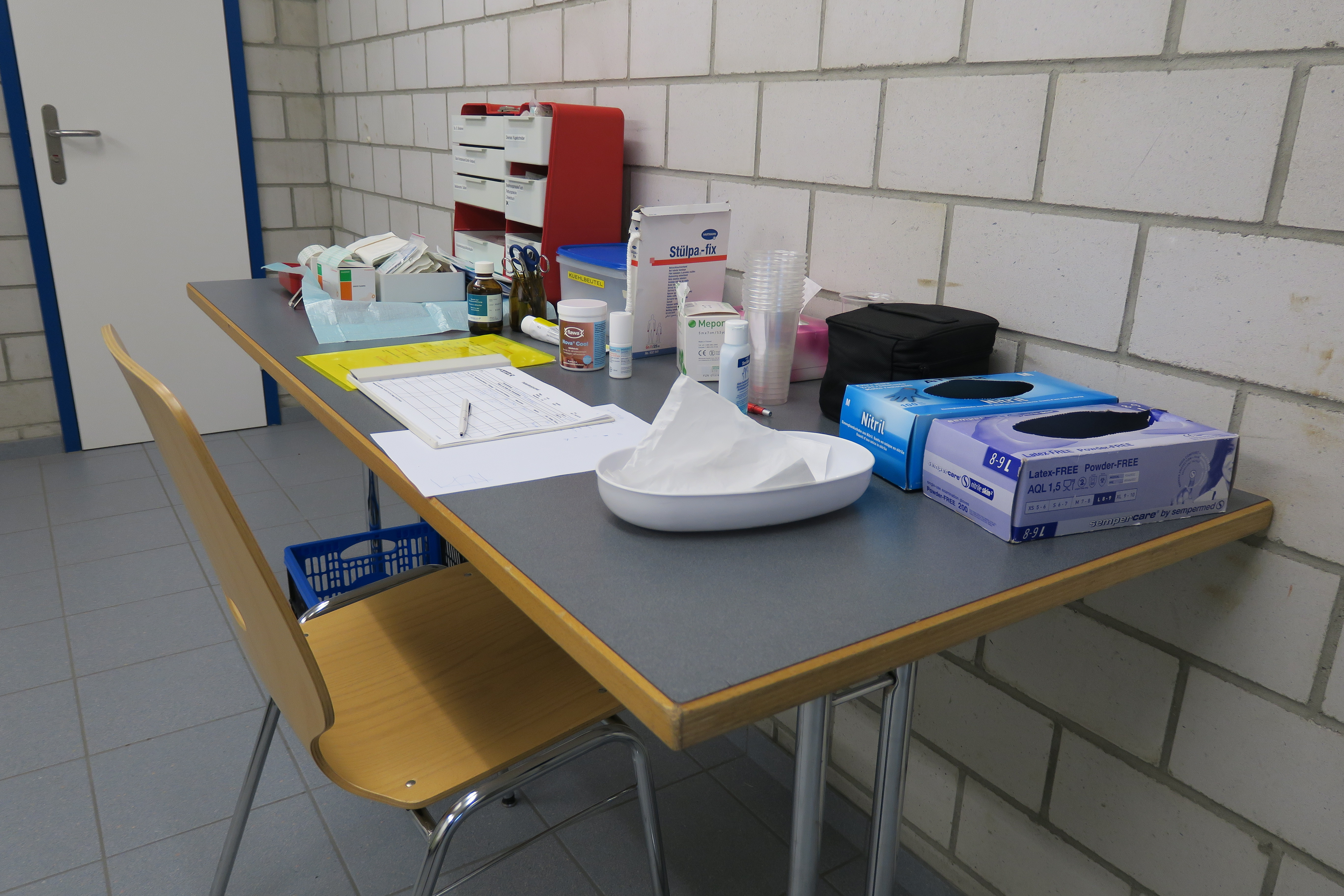 First Aid room at a gymnastics event, Arlesheim BL, Switzerland, in November 2016